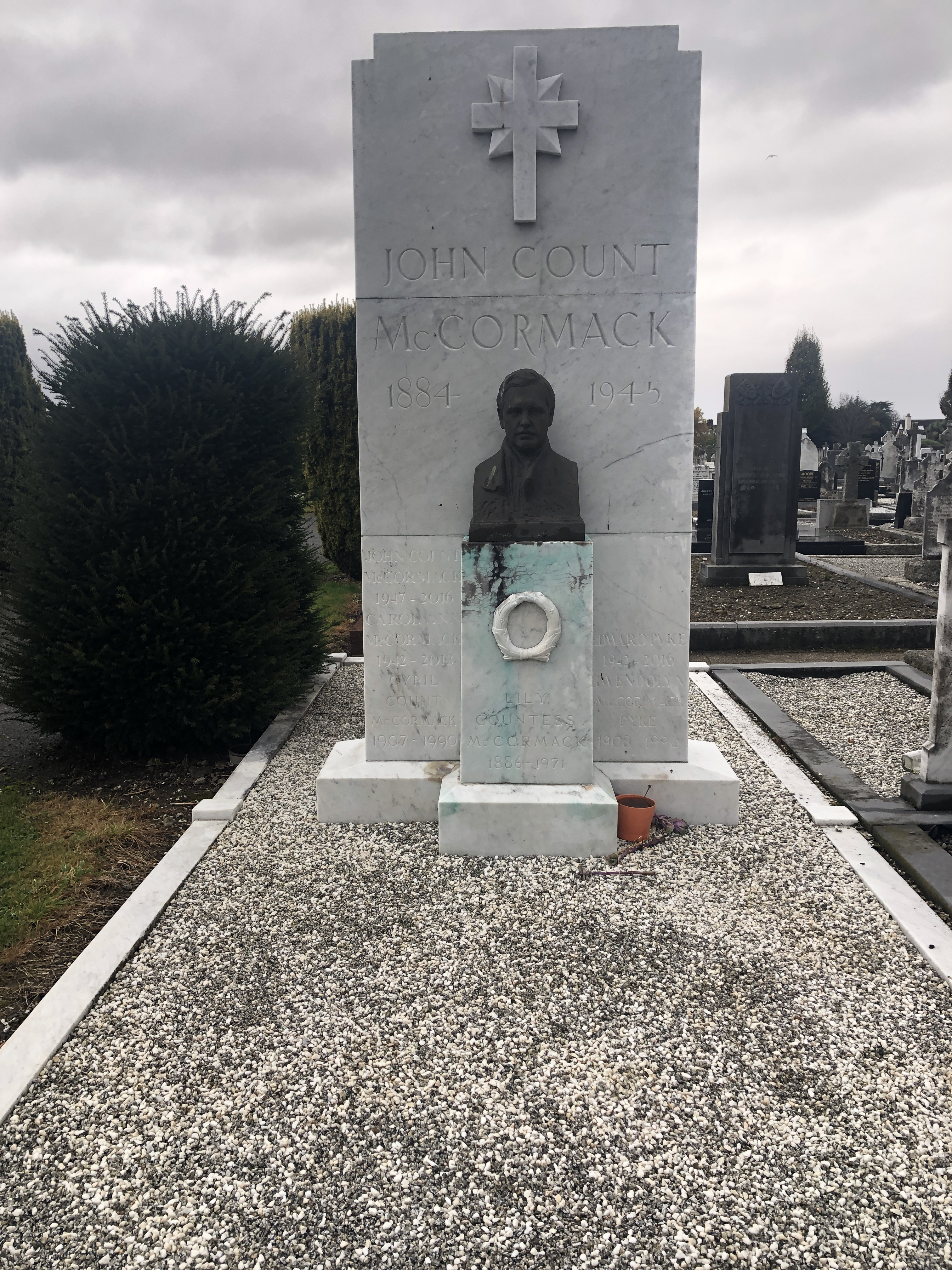 This is the grave site of where Dermody's husband, Cyril Count McCormack, is buried in Deansgrange cemetery.